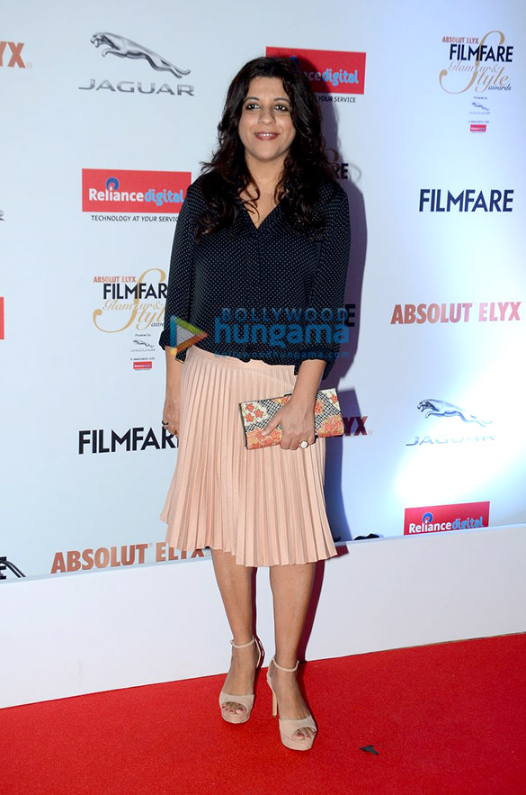 Akhtar gracing ‘Filmfare Glamour & Style Awards 2016’